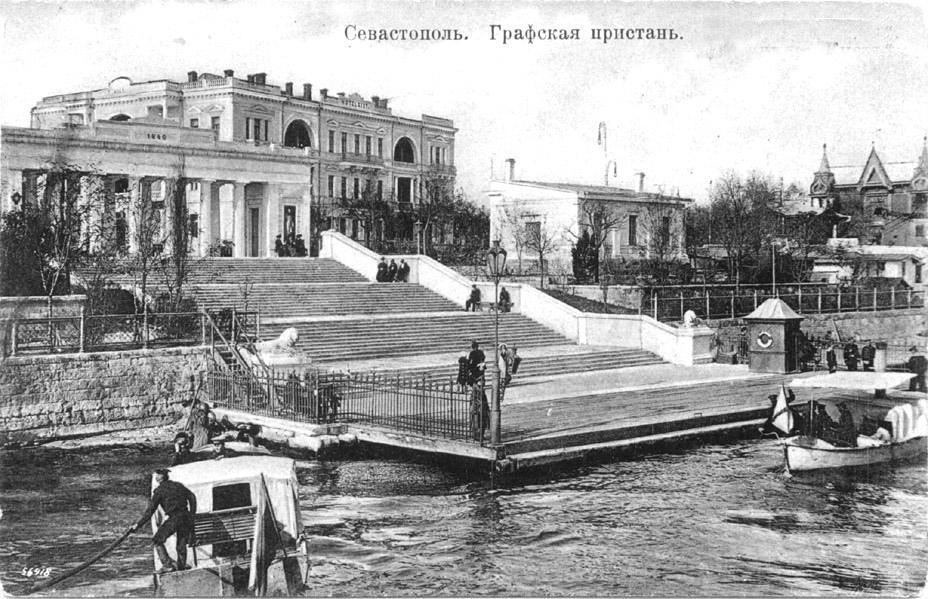 Grafskaya Wharf and Hotel in Sevastopol. Pre-1917 postcard. Flickr data on 2011-08-13 Tags: Old picture, postcard, Wharf, Hotel, Sevastopol, Public Domain License: CC BY-SA 2.0 User: paukrus Ruslan